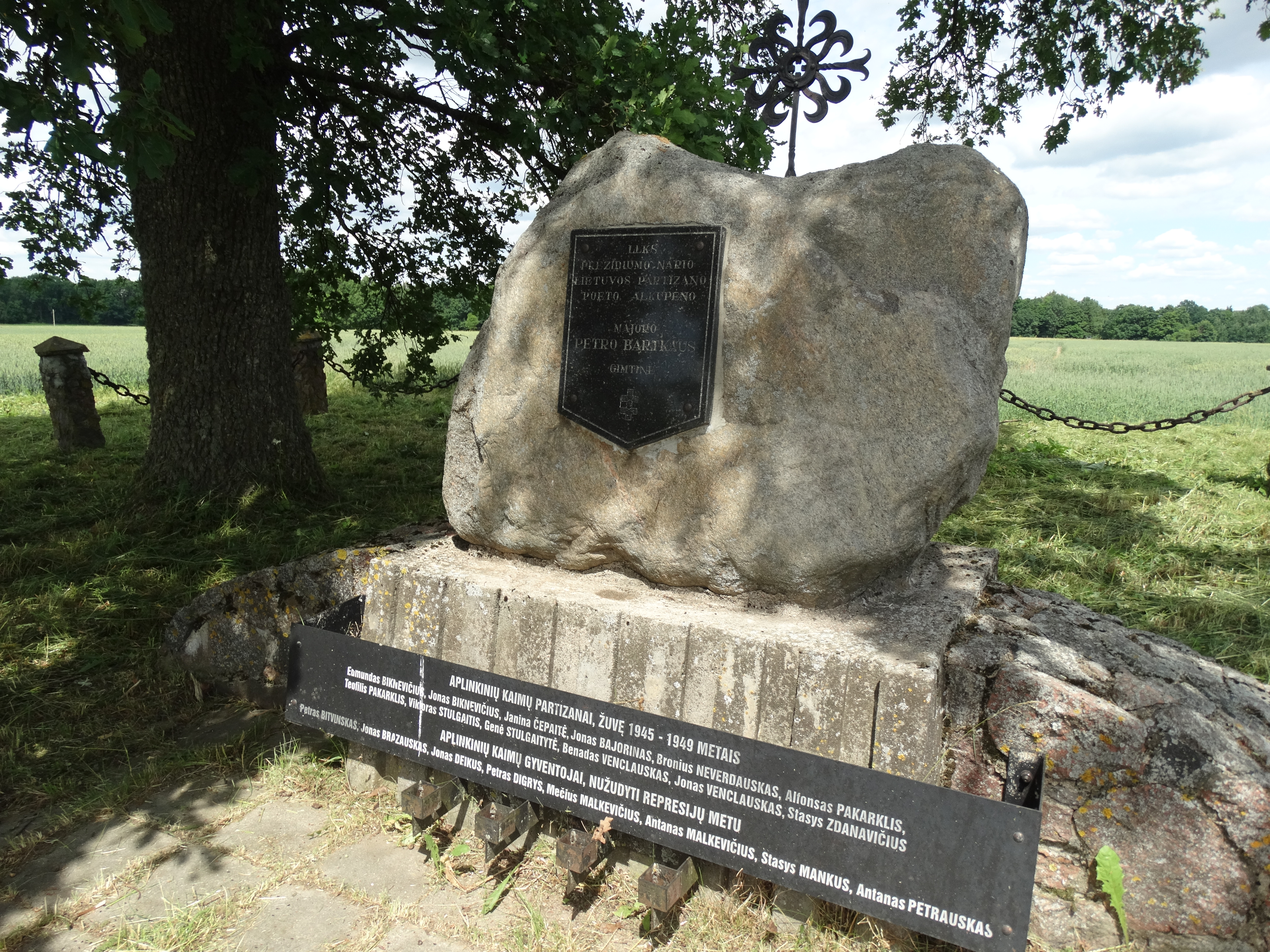 Memorial stone to partisan Petras Bartkus–Žadgaila, Pakapurnis, Raseiniai, Lithuania